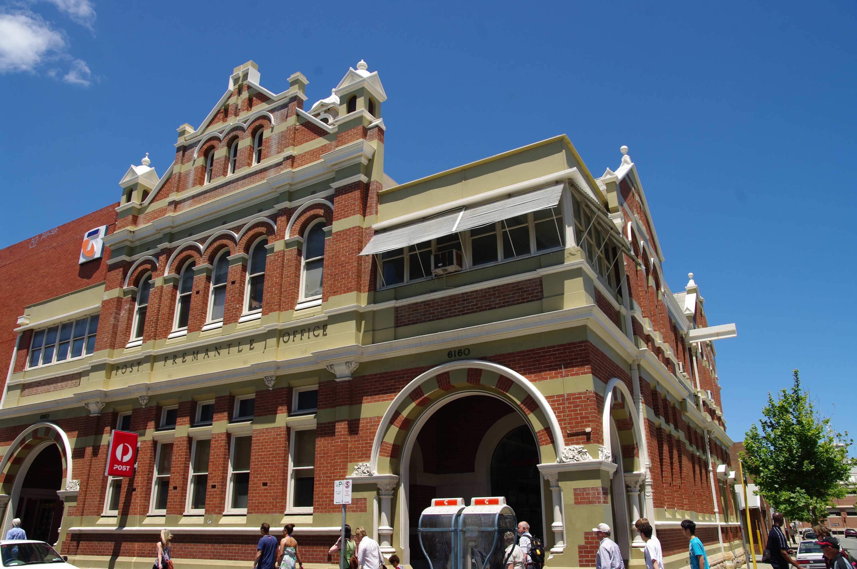 Wiki takes Fremantle 2 Fremantle Post Office